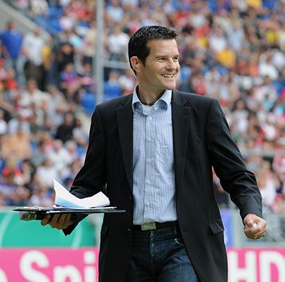 Jens Zimmermann, the German Host, on duty at the sport event.